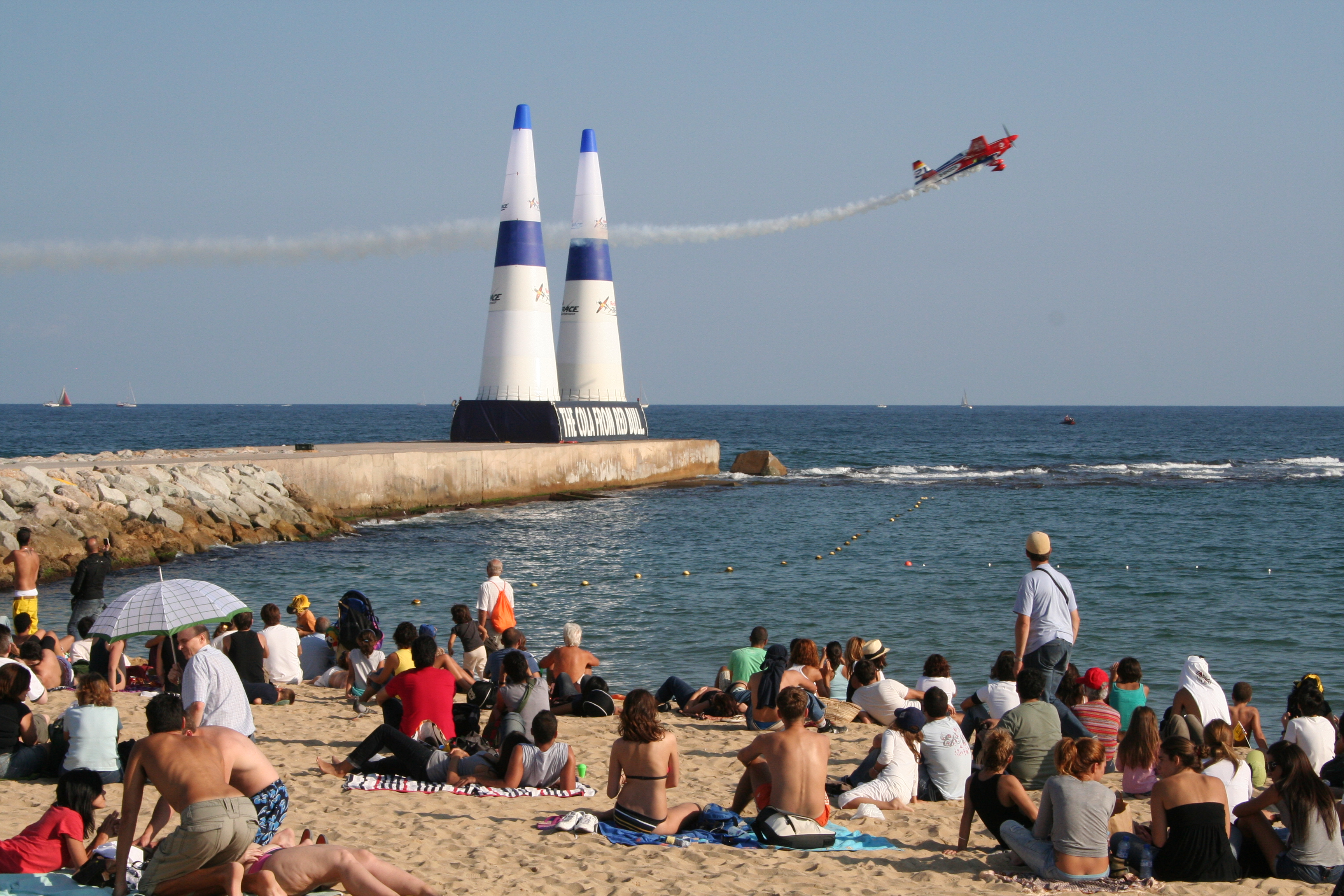 Matthias Dolderer in the qualifying of the last race of the Red Bull Air Race Series 2009 in Barcelona, Spain